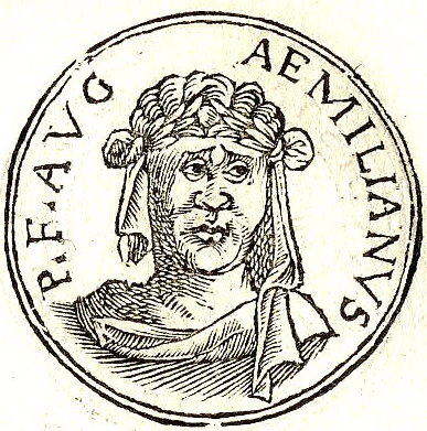 Mussius Aemilianus probably was of Italian stock. He was an officer in the Roman army under Philip the Arab and Valerian.